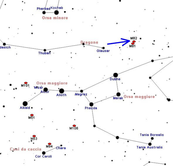 M82